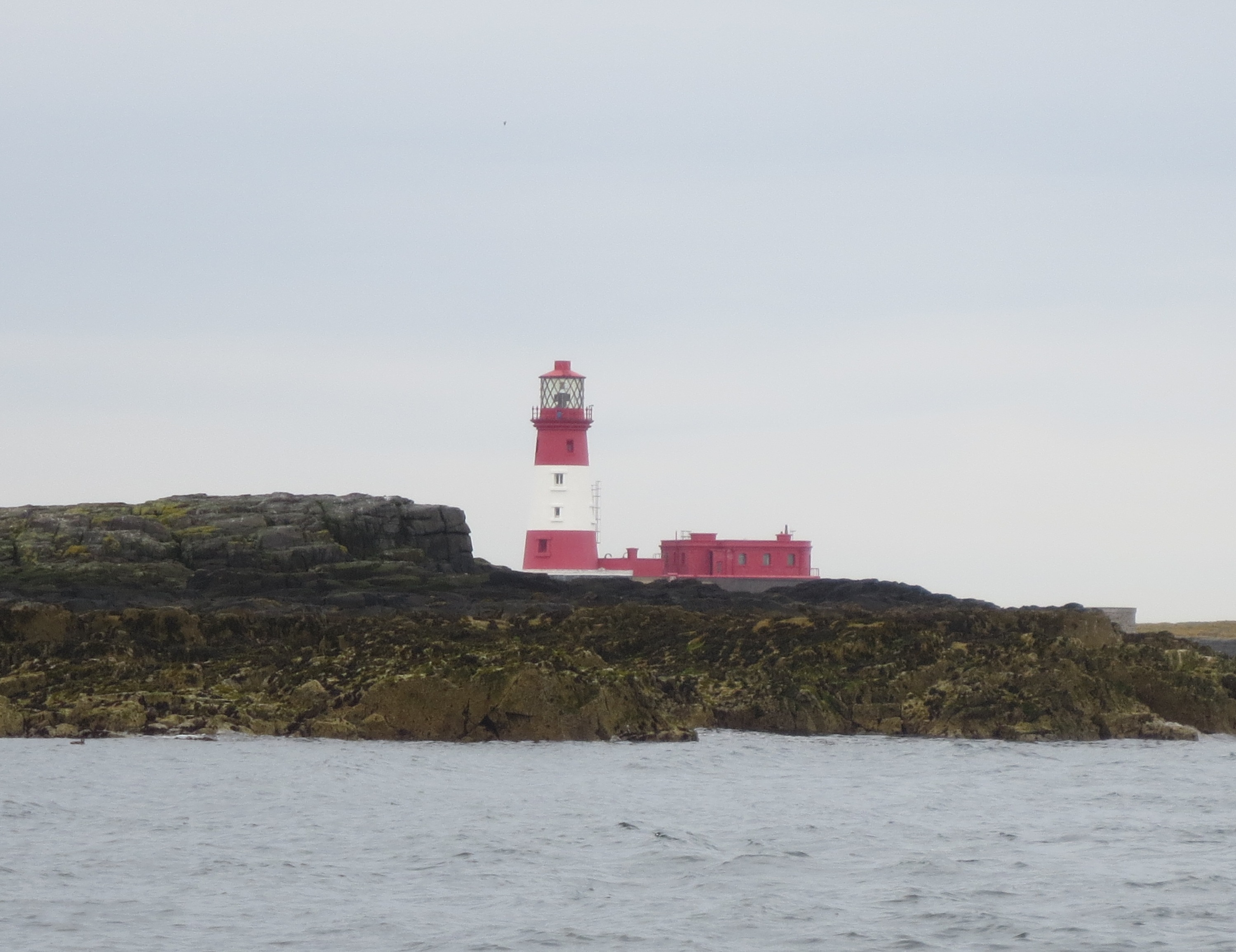 Lighthouse at Longstone (Farne Islands). The upper window in the white ring is Grace Darlings bedroom where she watched the sinking of the "Forfareshire"